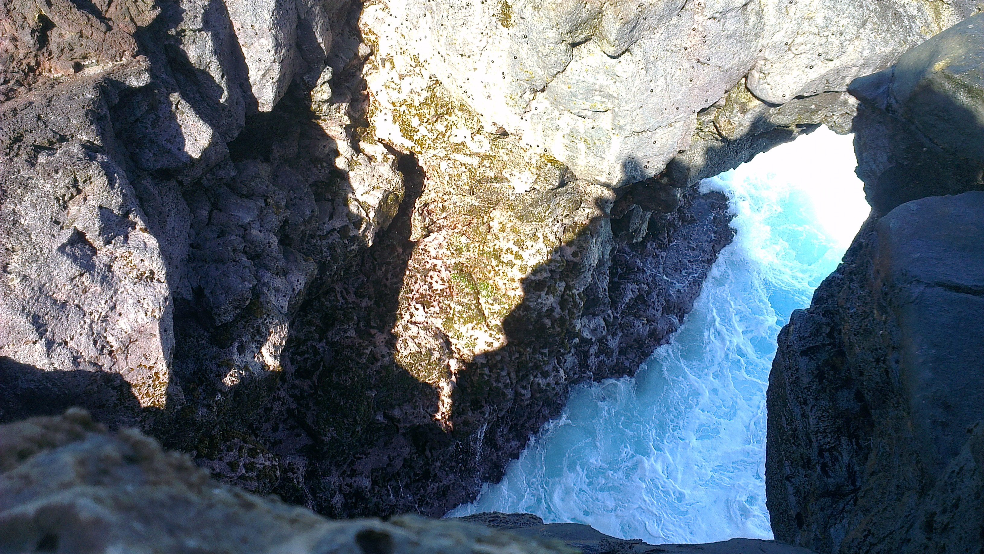 A rock formation in Mauritius